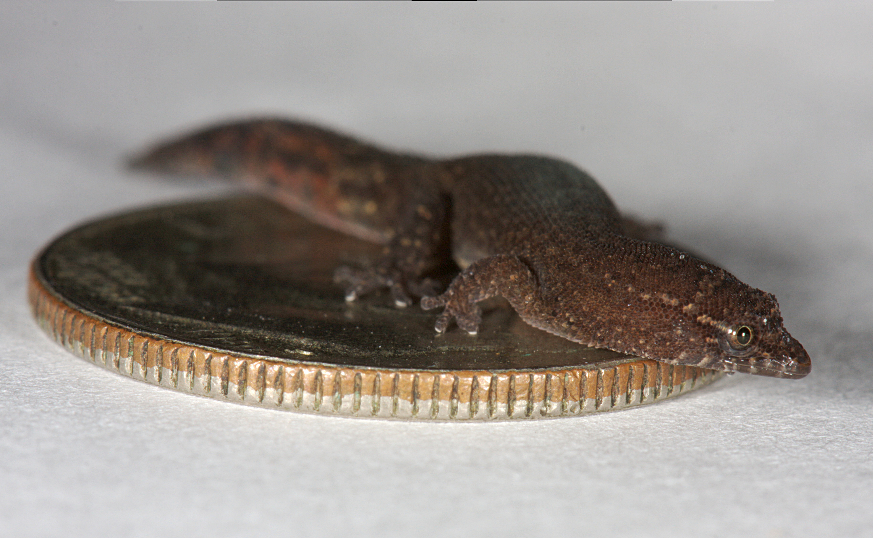 Male Sphaerodactylus parthenopion resting on a U.S. dime.